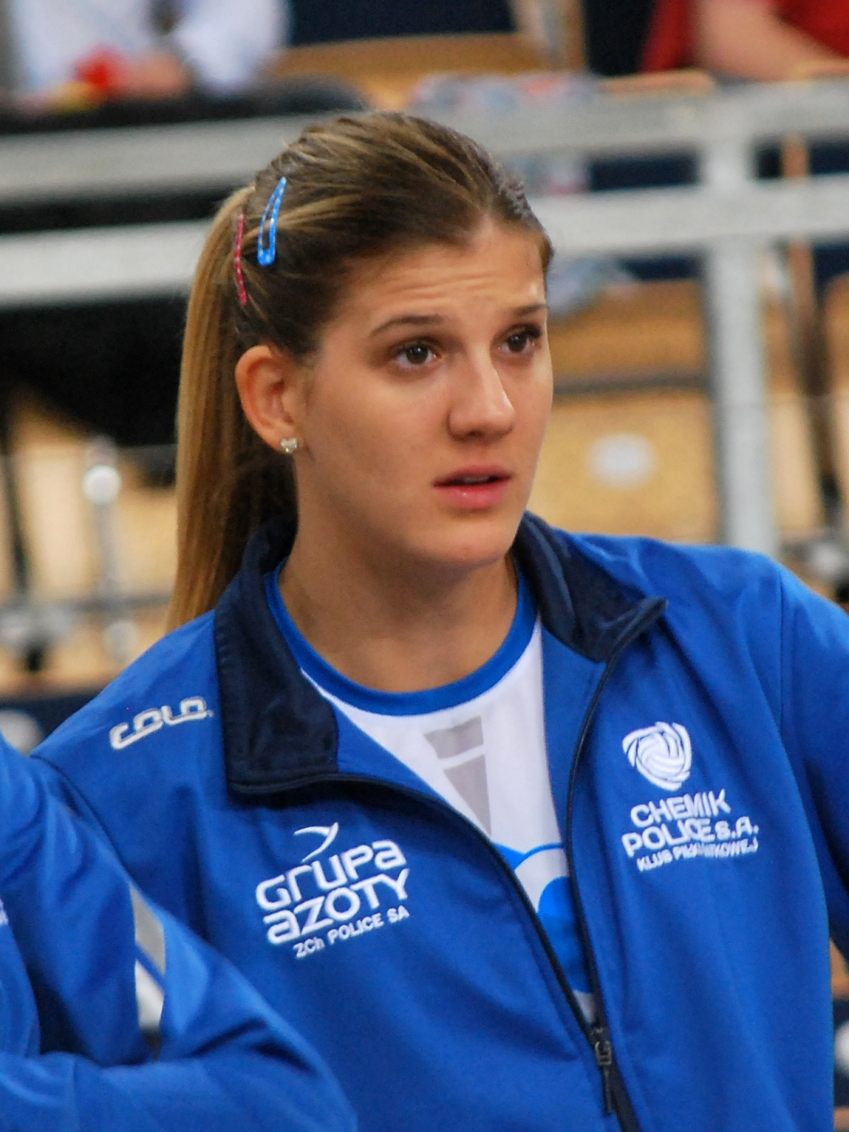 Ana Bjelica, volleyball player from Serbia